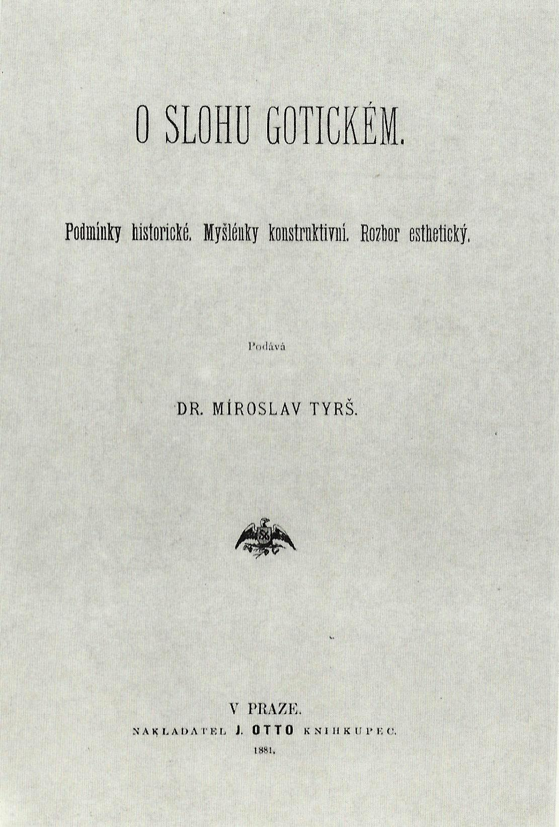 Title page of 1881 art history book by Miroslav Tyrš